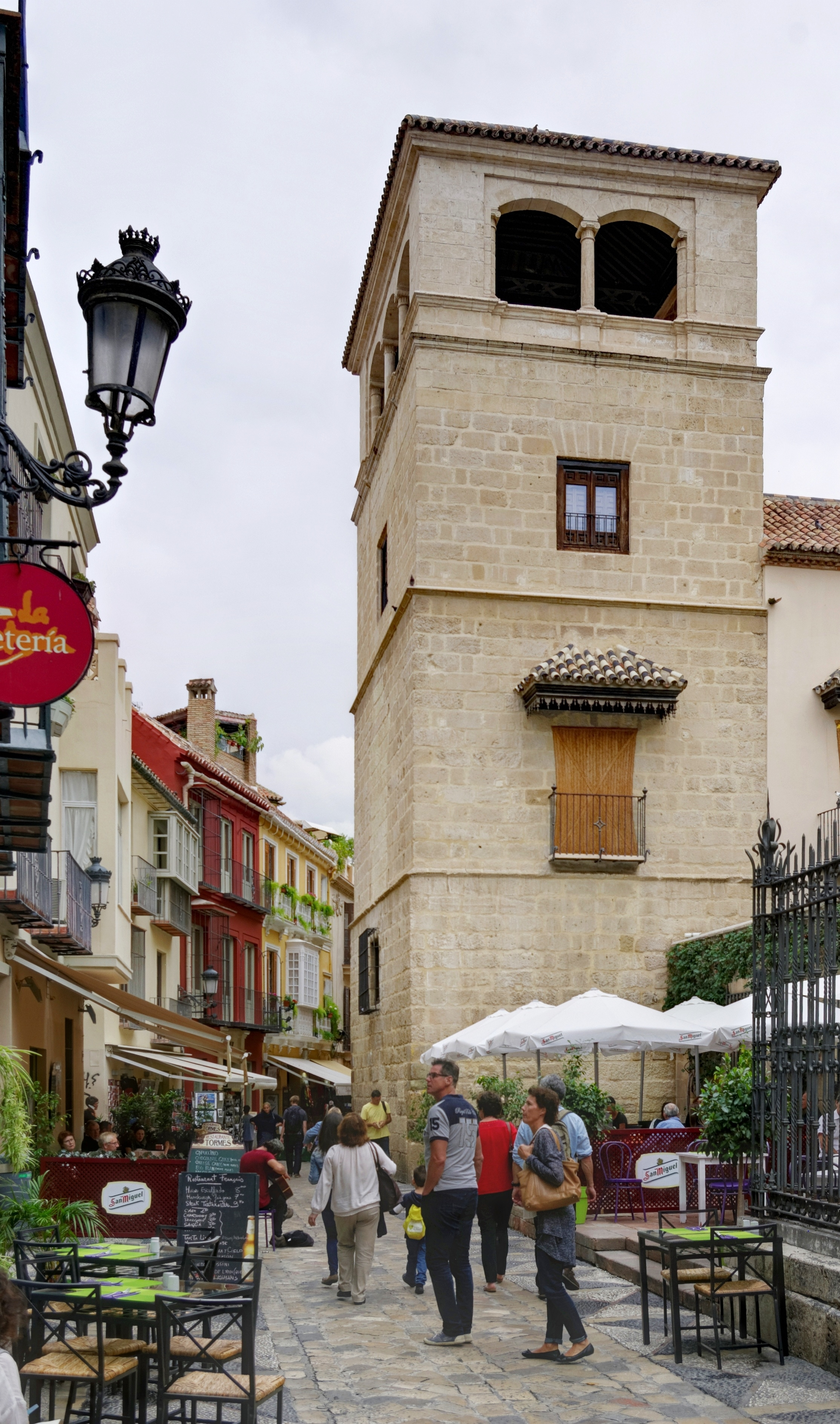 Spain, Malaga, Calle San Augustin